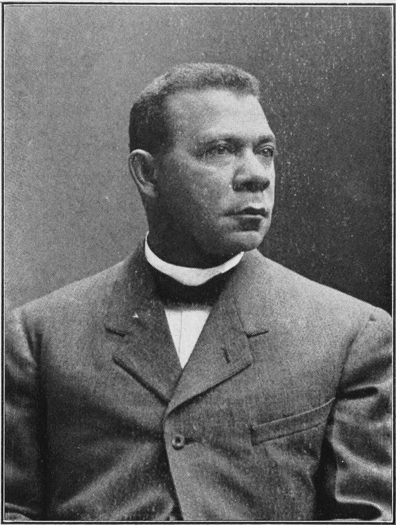 Photo portrait of Booker T. Washington early in his career. Published in the book "American civilization and the Negro: the Afro-American in relation to national progress"; By C. V. Roman, A.M., M.D., LL.... (1916)